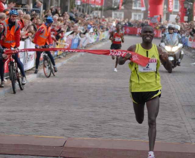 Patrick Makau during City-Pier-Cityloop 2008 in The Hague